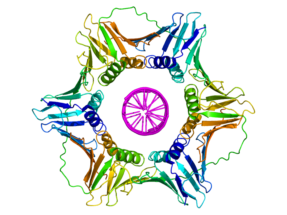 Complex between human PCNA (PDB: 1W60; rainbow colored) and double stranded B DNA (magenta)